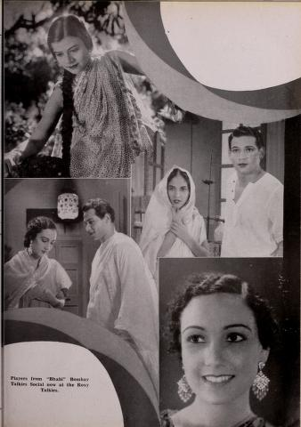 Screen shots of the film Bhabhi from the cine-magazine Filmindia January 1939